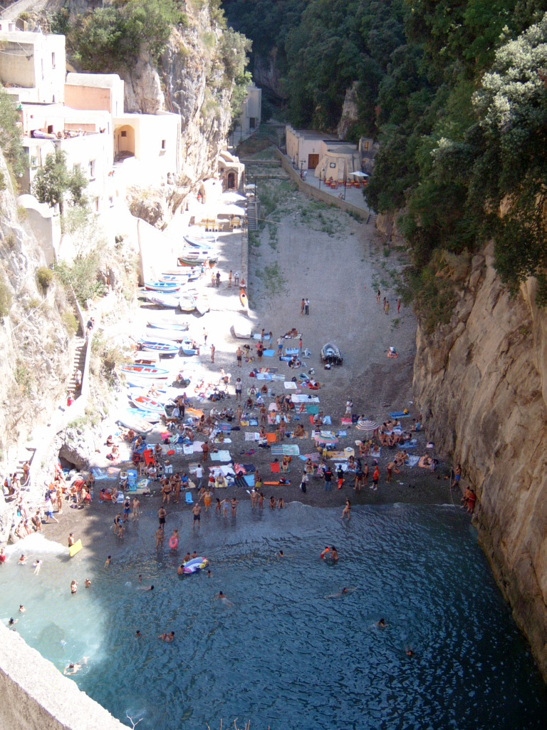 Landscape of the Fiordo di Furore